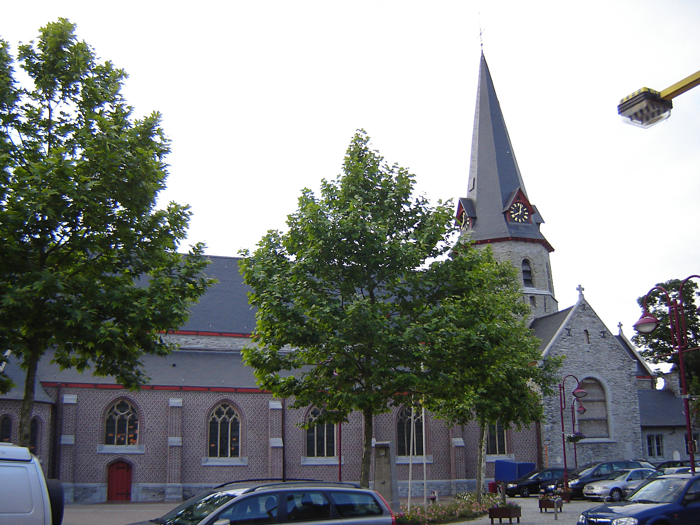 Church of Saint Radegund in Merendree. Merendree, Nevele, East Flanders, Belgium